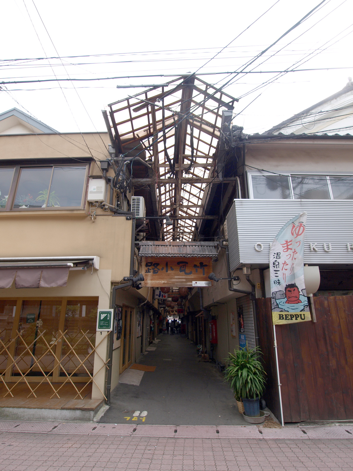 Takwgawara Koji Arcade, Beppu City, Oita Pref., Japan